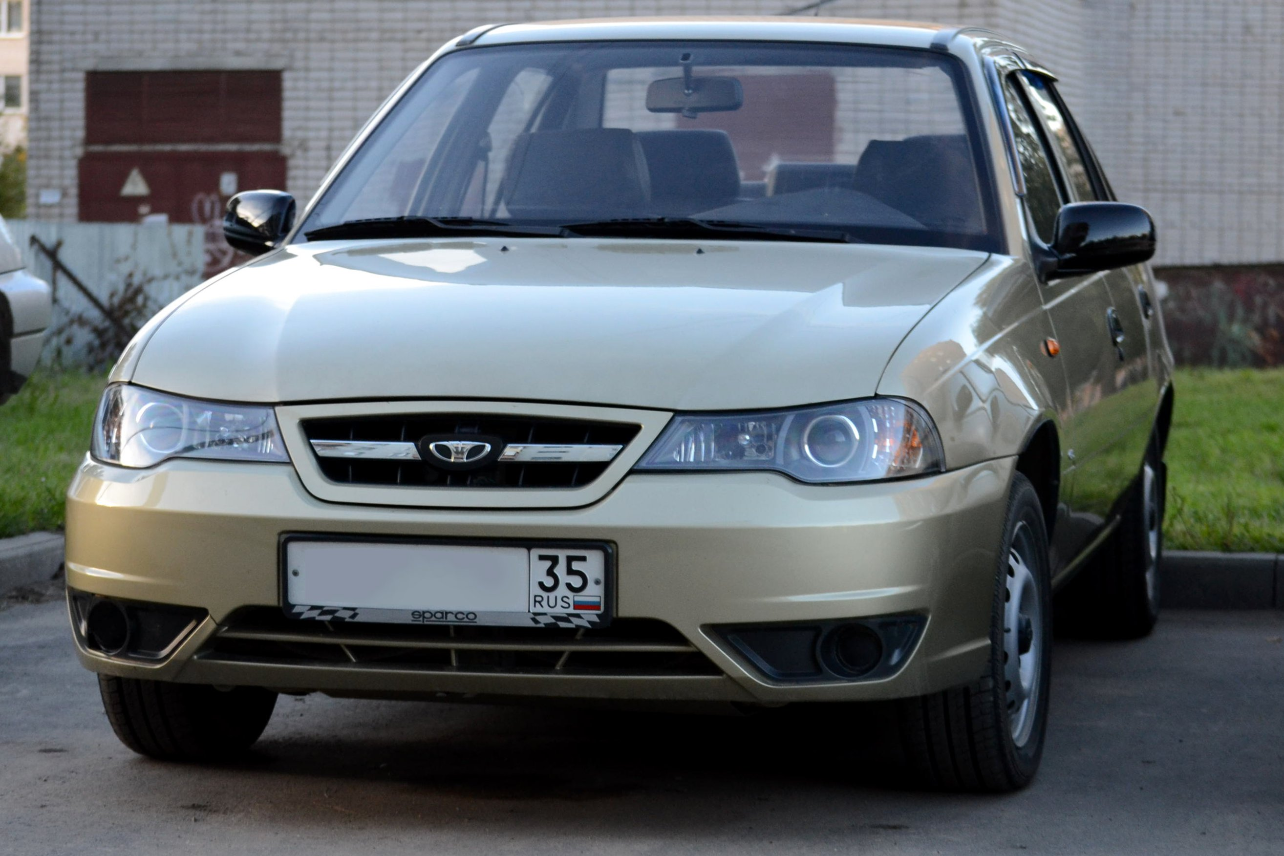 Daewoo Nexia restyled in 2008